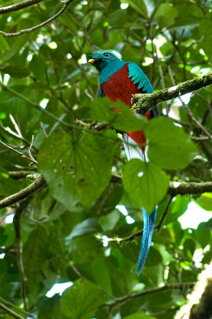 A male Resplendent Quetzal (Pharomachrus mocinno). Photographed in the Monteverde Cloud Forest Reserve, Puntarenas Province, Costa Rica